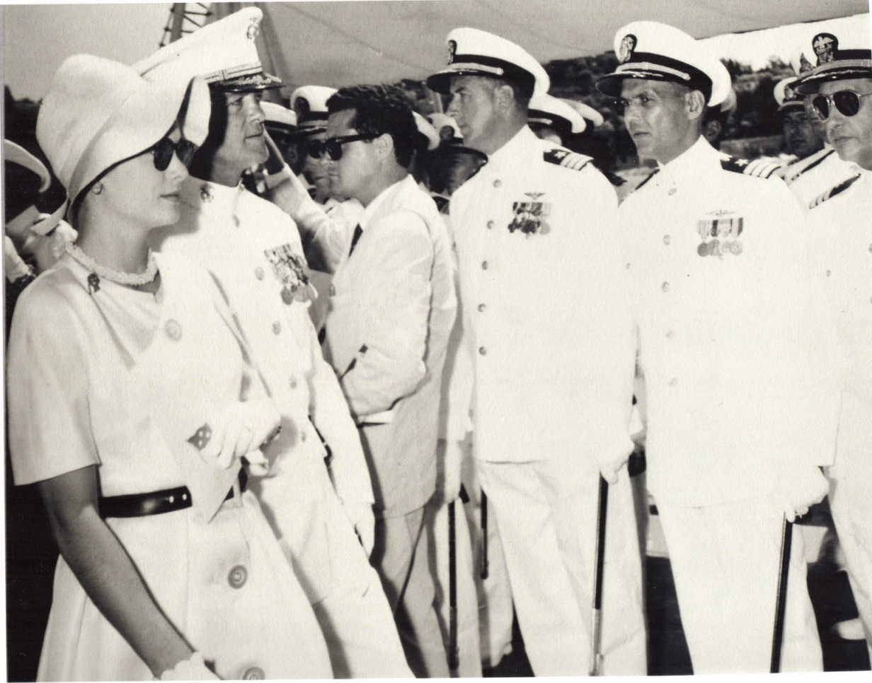 John Nicholas McLaughlin (September 21, 1918 – August 8, 2002) was a highly decorated officer of the United States Marine Corps with the rank of lieutenant general. During his 33 years of active service, McLaughlin was the participant of wars in Pacific, Korea and Vietnam. He was taken prisoner during Korean War and spent almost three years in Chinese captivity. McLaughlin finished his career as commanding general of Fleet Marine Force, Pacific. Commanding general of Fleet Marine Force Pacific, Lieutenant general McLaughlin escorting Princess Grace of Monaco during her visit to Hawaii.